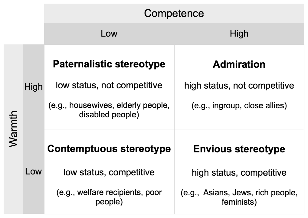 Chart created by me based on Fiske et al. (2002). '"A Model of (Often Mixed) Stereotype Content: Competence and Warmth Respectively Follow From Perceived Status and Competition." Journal of Personality and Social Psychology 82 (6): 878–902.